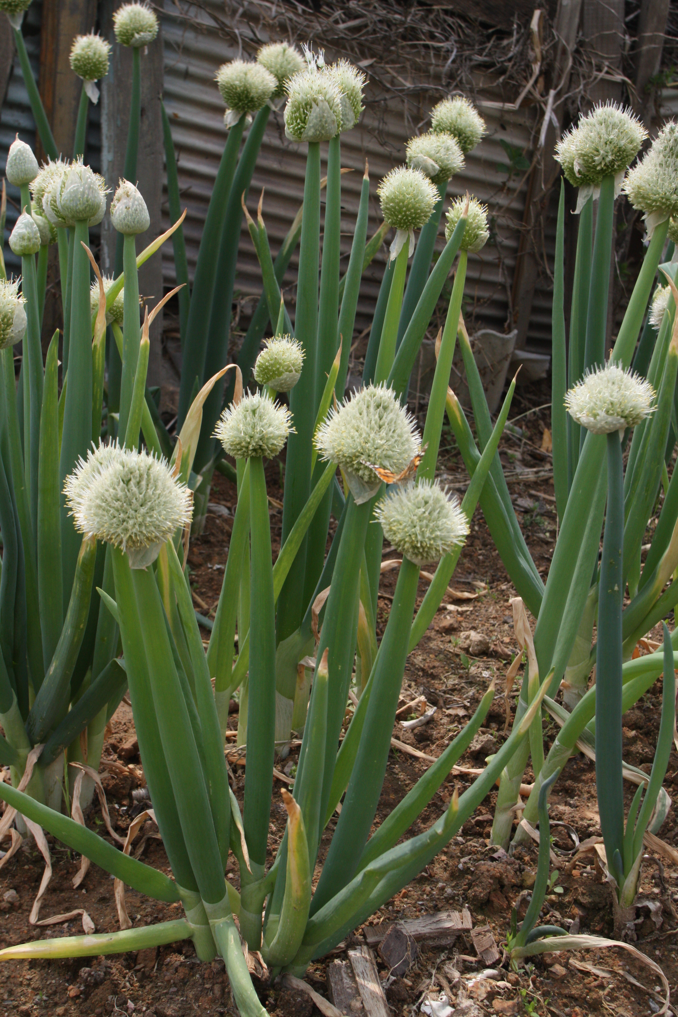 Allium fistulosum